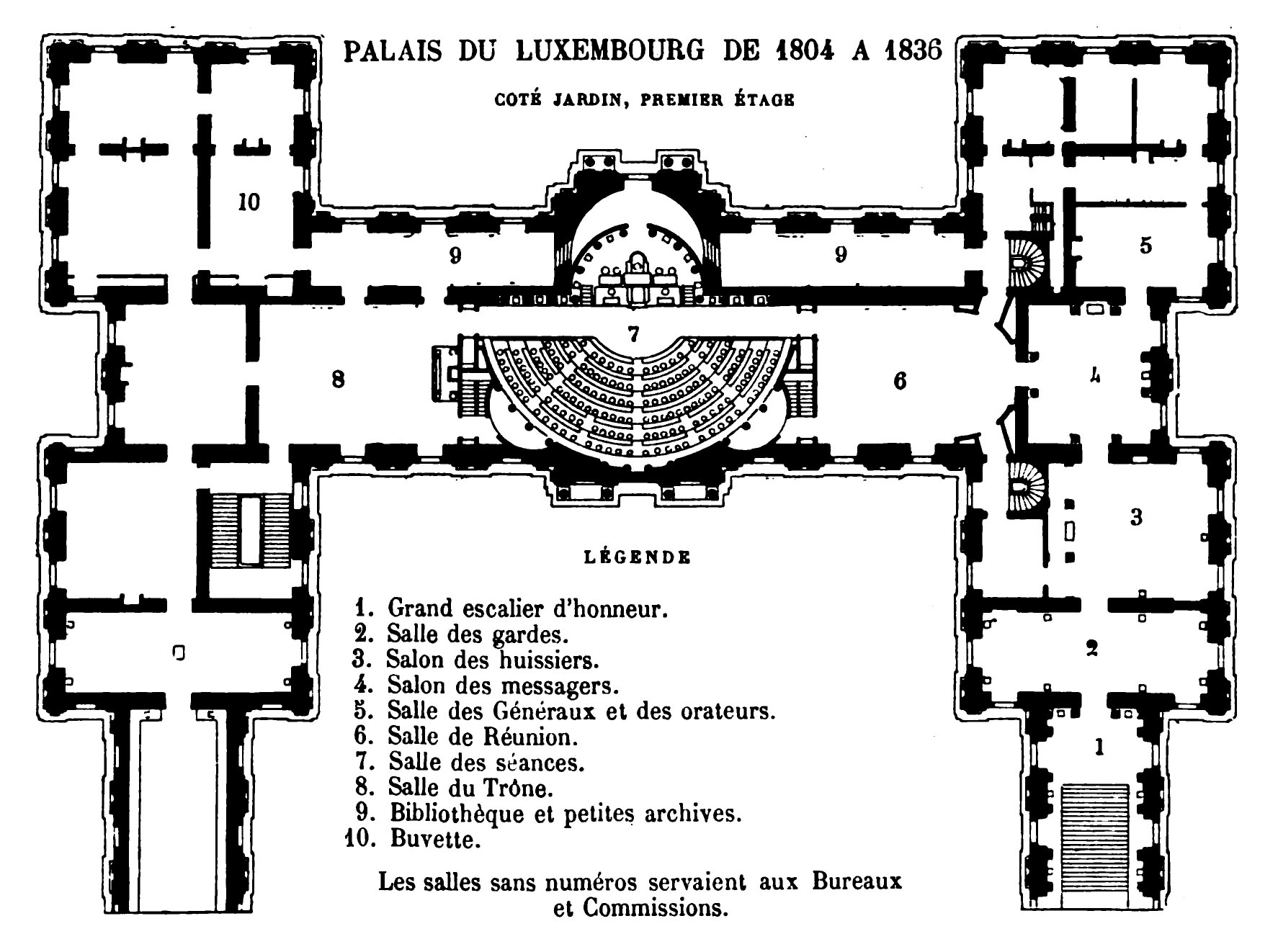 Partial plan of the premier étage (the first floor above the ground floor of the corps de logis) of the Palais du Luxembourg in Paris, as it appeared between 1804 and 1836, with the temporary chamber of the Senate of France